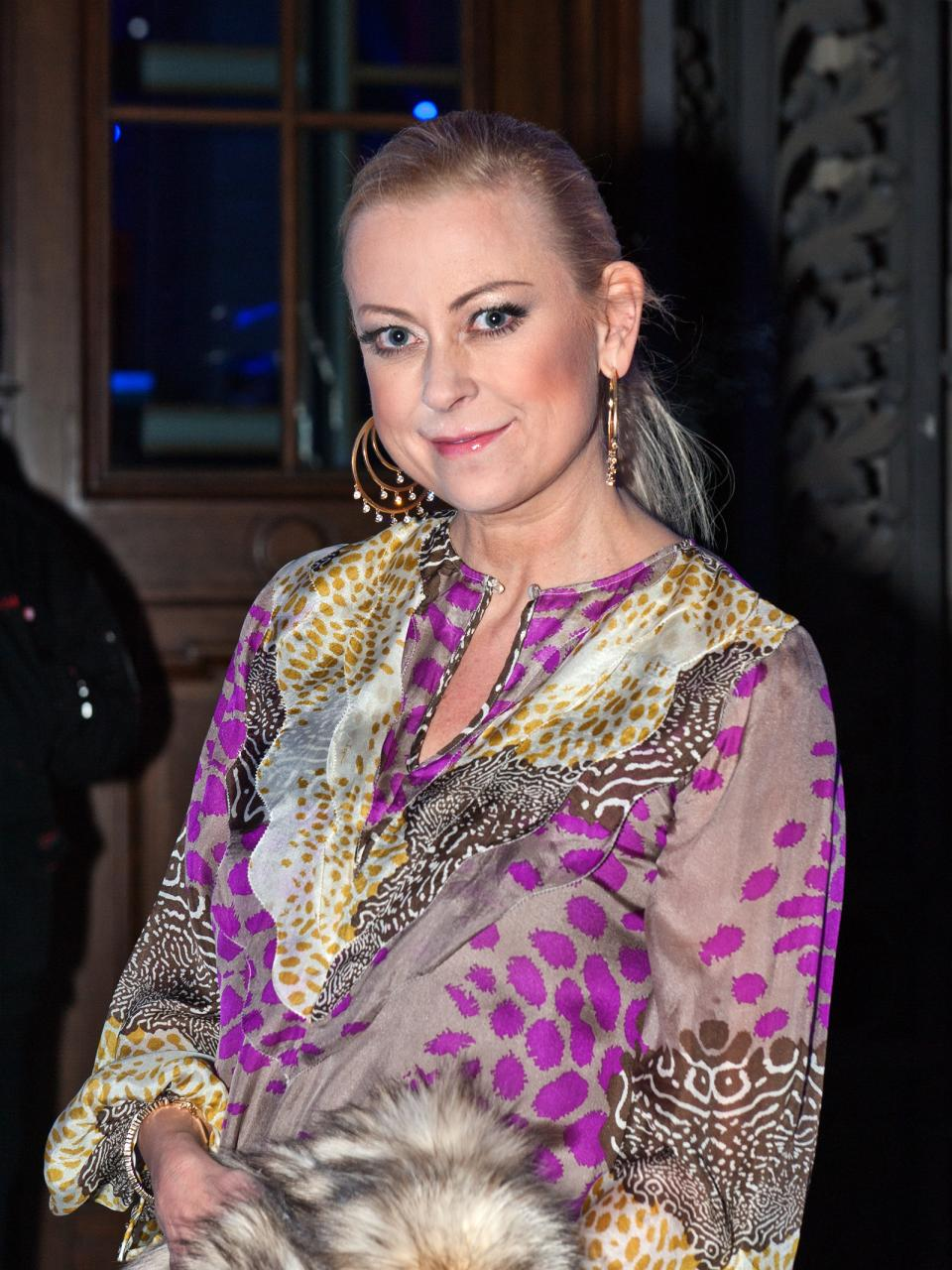 Jenny Elvers-Elbertzhagen, German actress, Berlinale 2012, ARD Degeto Blue Hour Party